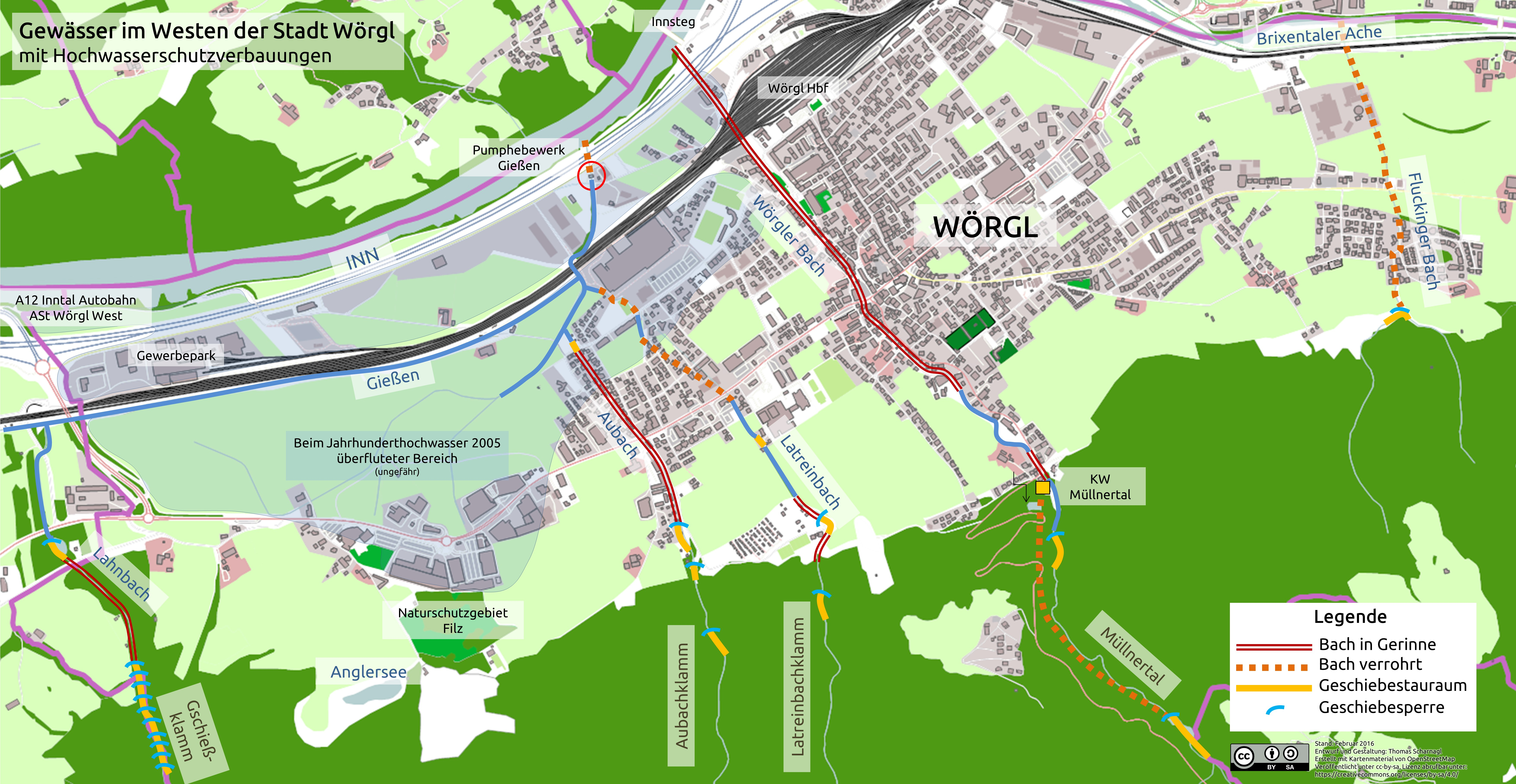 Map of the west side of Wörgl (Tyrol, Austria) whith the inshore waters in this area.